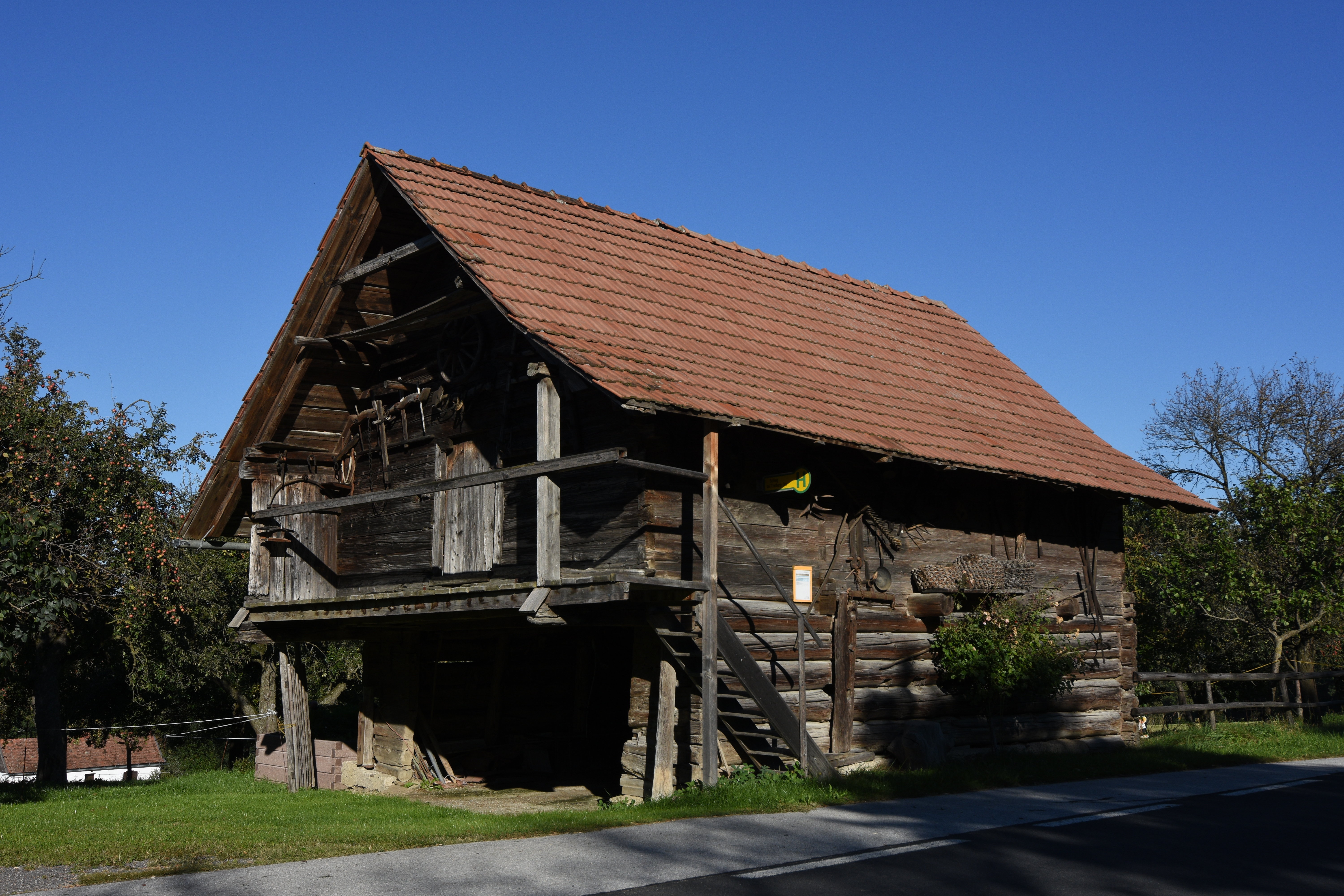 Schlag bei Thalberg